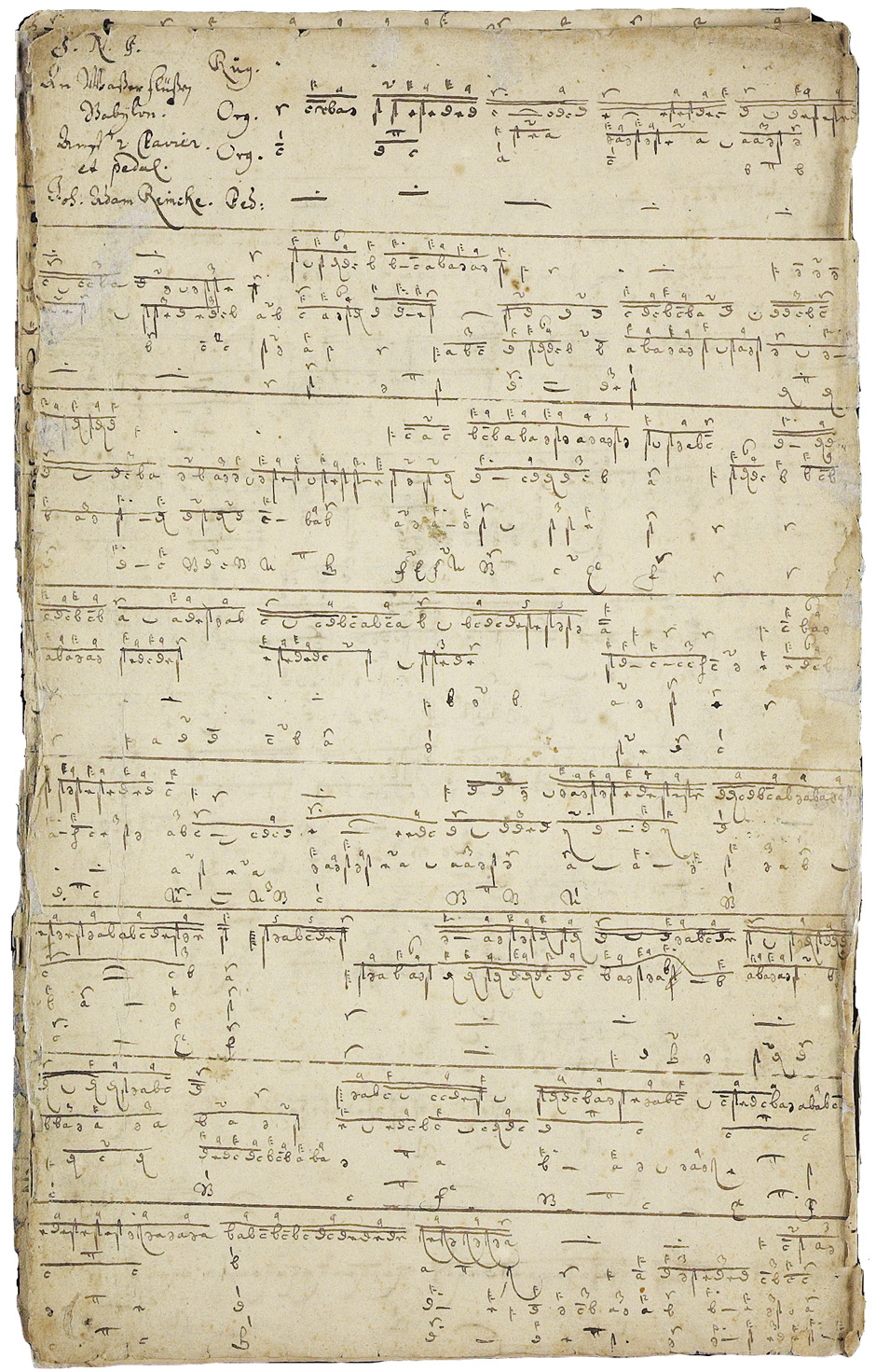 Organ tablature of Johann Adam Reinckens Phantasia over "An Wasserflüssen Babylon"; Duchess Anna Amalia Library in Weimar